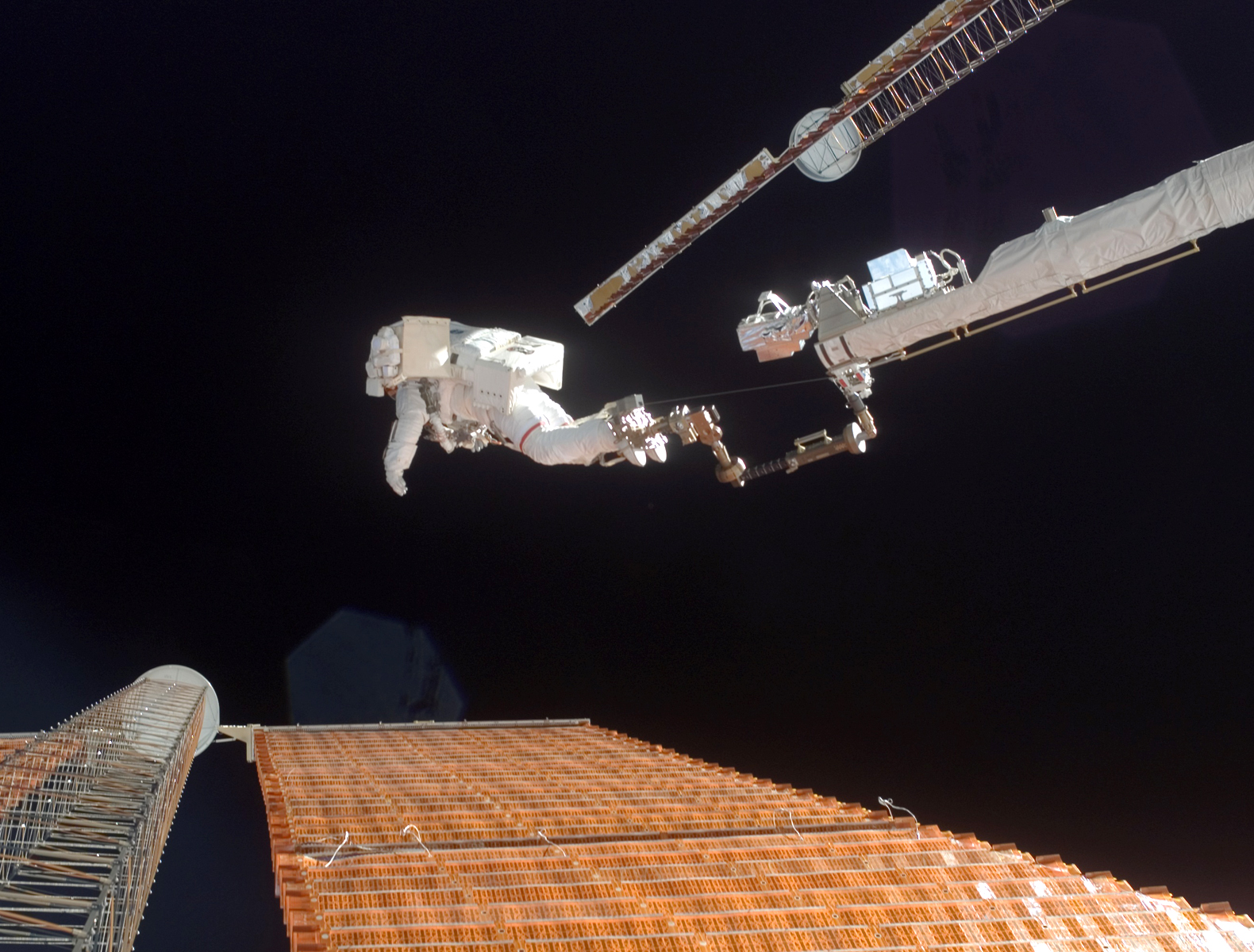 While anchored to a foot restraint on the end of the Orbiter Boom Sensor System (OBSS), astronaut Scott Parazynski, STS-120 mission specialist, assesses his repair work as the solar array is fully deployed during the mission's fourth session of extravehicular activity (EVA)